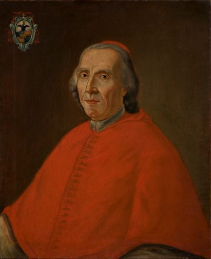 Cardinal Ignazio Michele Crivelli